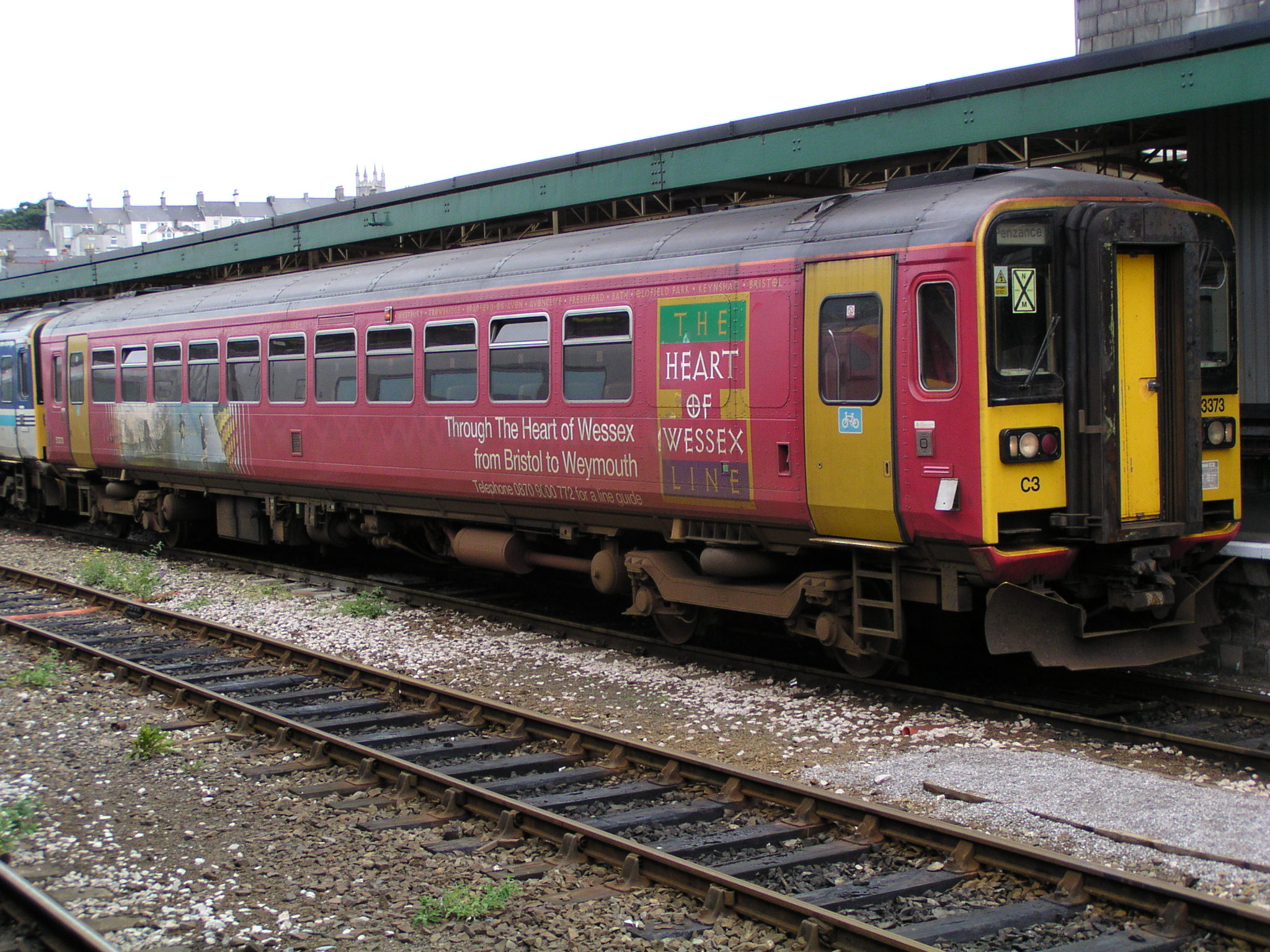 This image was copied from . The original description was: Class 153, no. 153373 at Plymouth on 29th August 2003, with a service to Penzance. This unit is operated by Wessex Trains and carries Heart of Wessex livery.